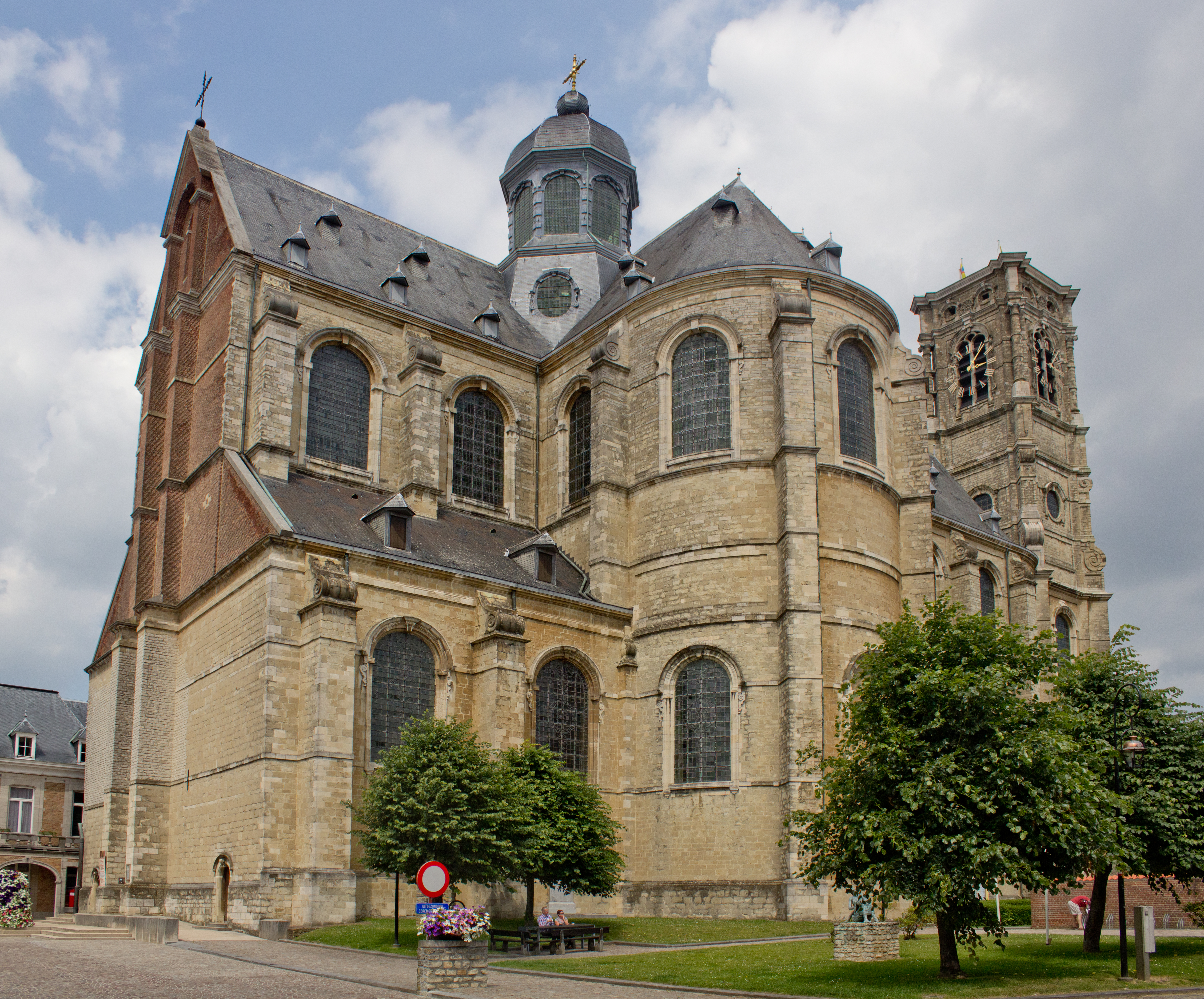 De zuidzijde van de abdijkerk te grimbergen